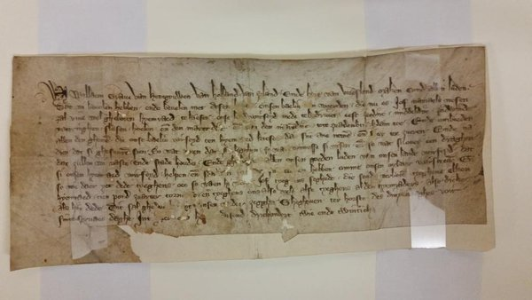 Old document for the creation of the Waterboard Woerden